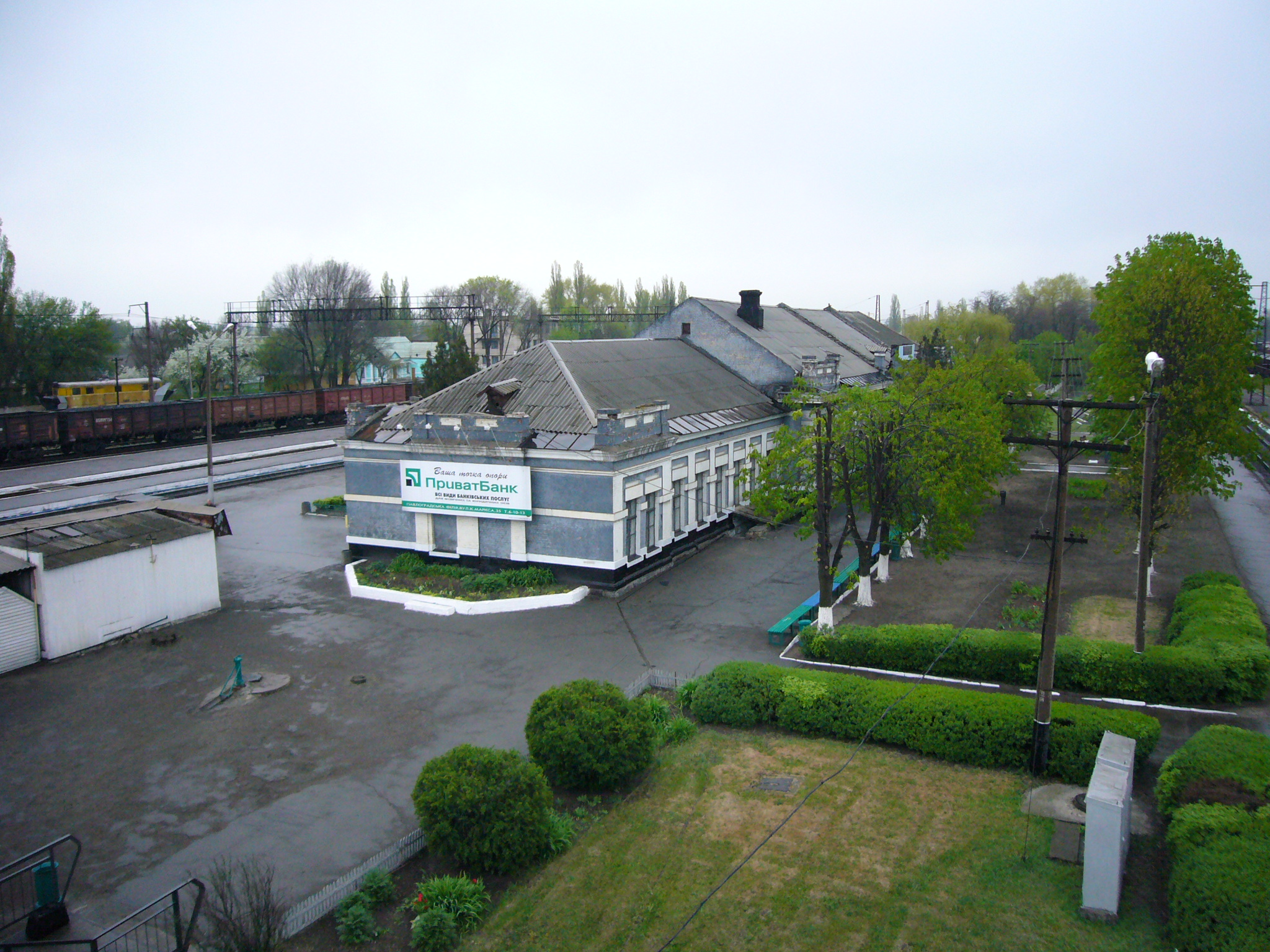 Pavlograd-1 Railway Station, Dnipropetrovsk Oblast, Ukraine